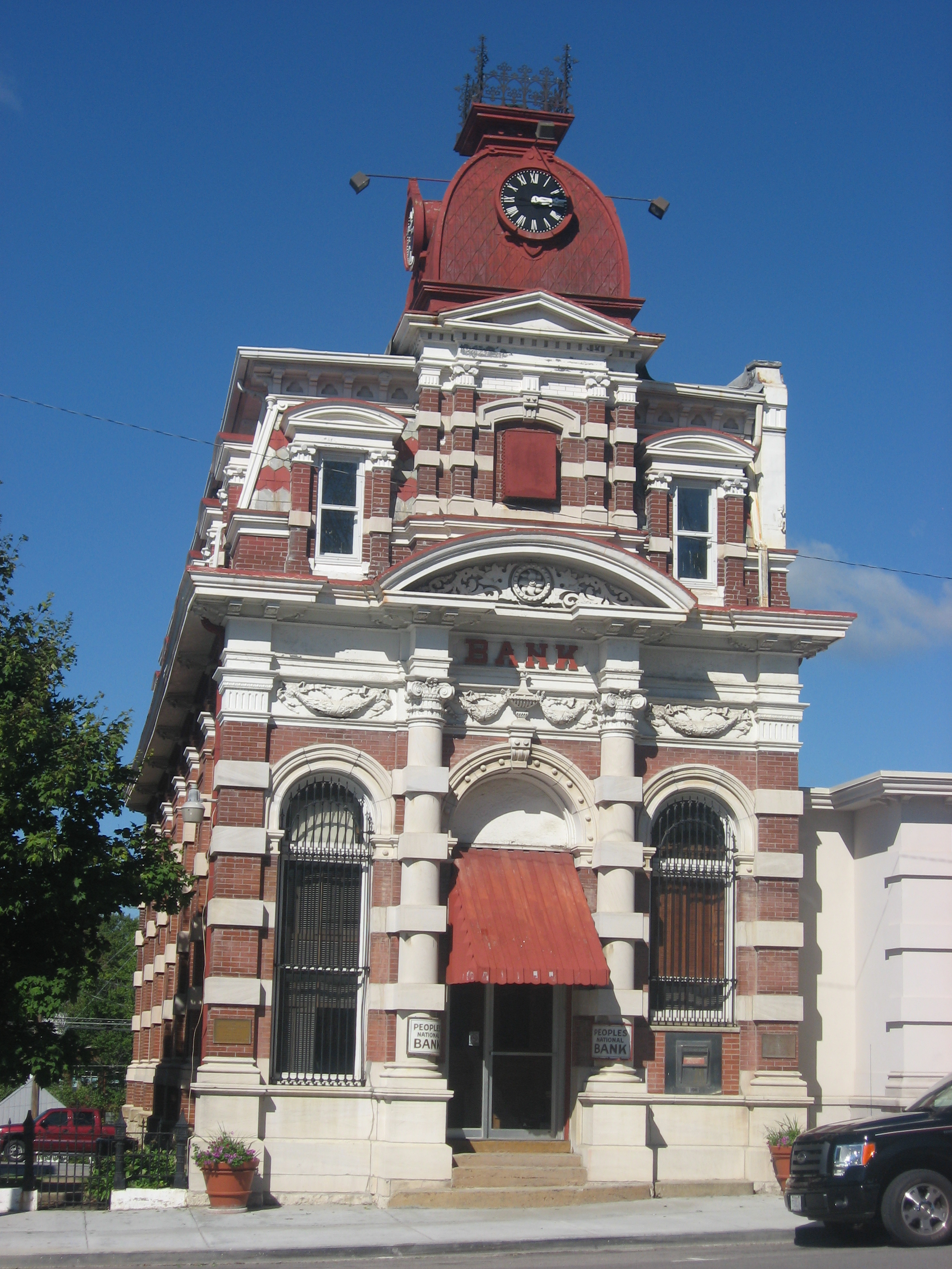 Front of the Cloud State Bank, located at 108 S. Washington Street in McLeansboro, Illinois, United States. Built in 1882, it is listed on the National Register of Historic Places.